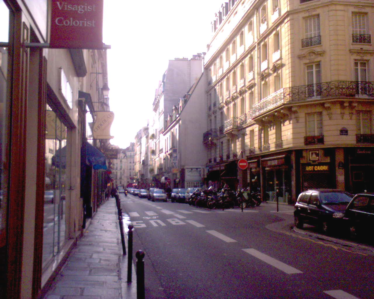 The crossroad of Rue Daphine and Rue de Nesle, in Saint Germain des Pres, Central Paris, France.